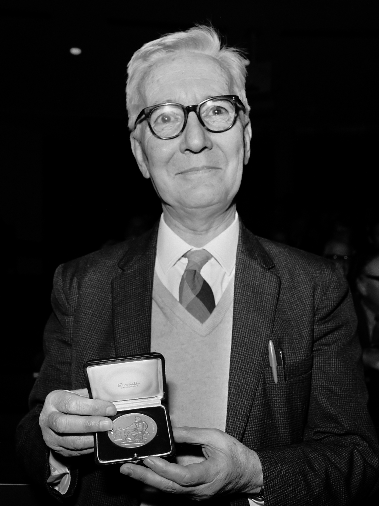 Niko Tinbergen (1907-1988), Dutch ethologist. 1973 Swammerdam medaille. Photo taken on 7 Dec. 1973, Swammerdam Medal (KNAW).